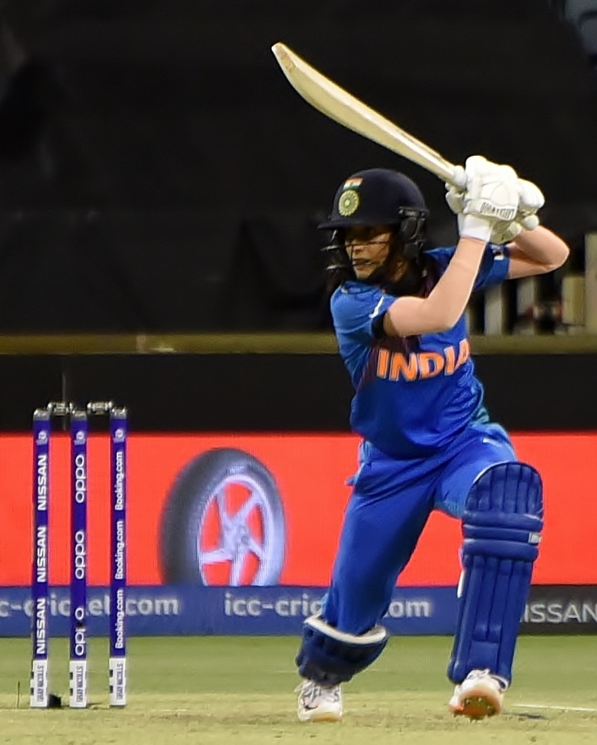 Jemimah Rodrigues batting for India against Bangladesh during their 2020 ICC Women's T20 World Cup match at the WACA Ground in Perth, Australia